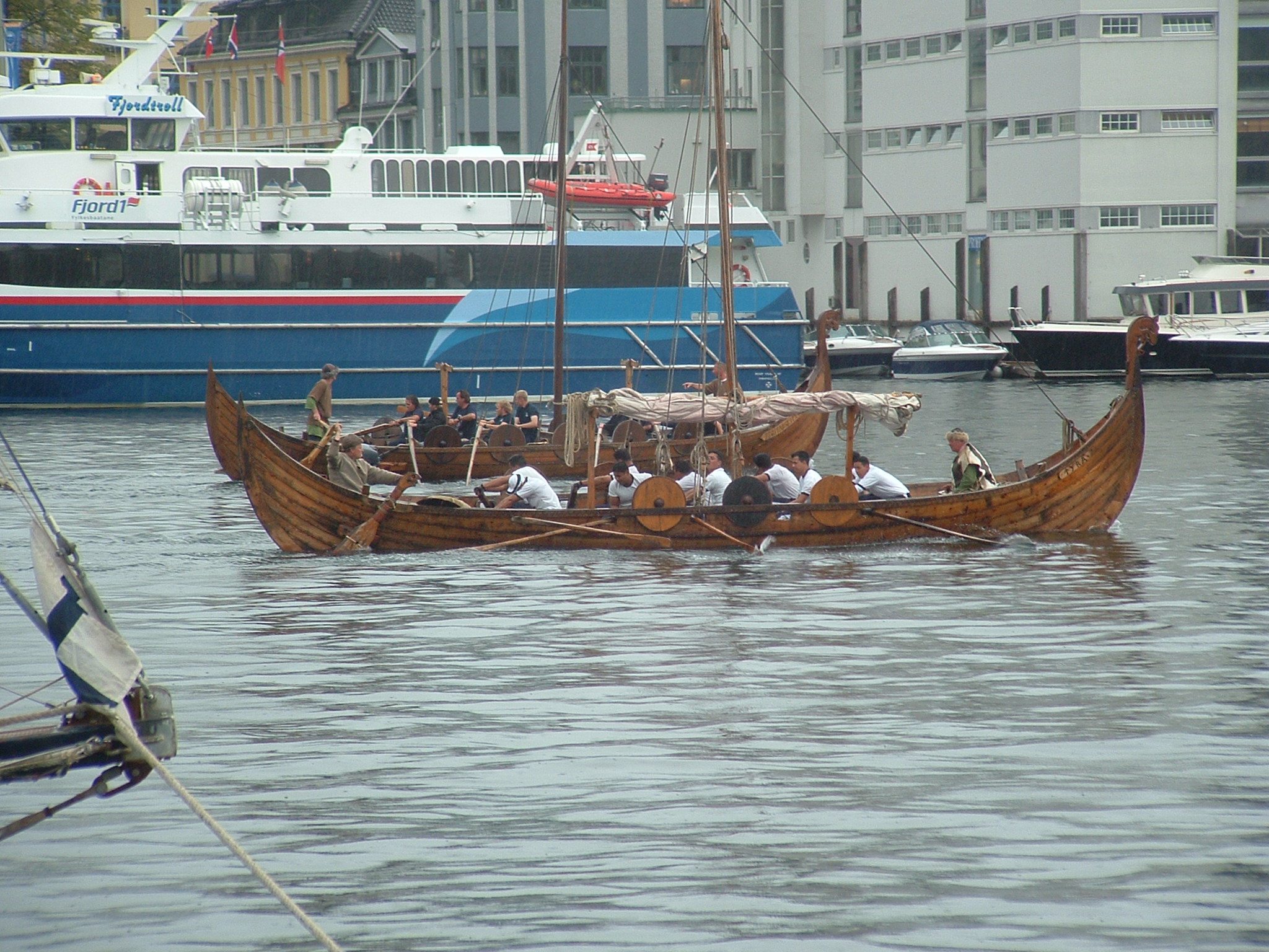 Rowing is not easy. Vikingship-miniatures with five pairs of oars for competitive rowing, Bergen aug.10 08